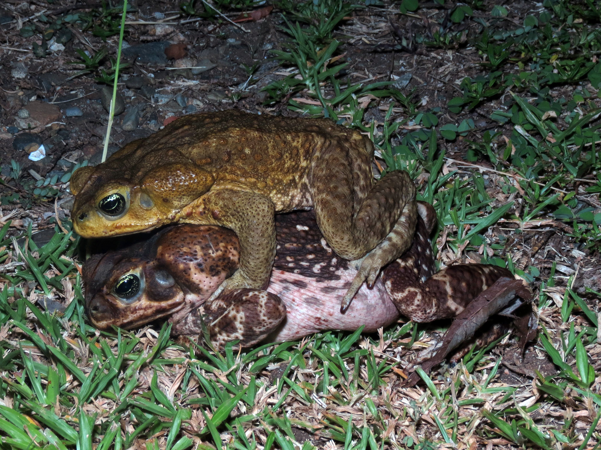 Rhinella marina at night. At the Barro Colorado Island dock, Panama. 17 January 2012